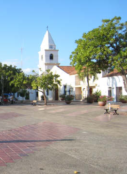 Image of Concepcion church Valledupar, Colombia